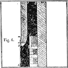 very old pic from 1796